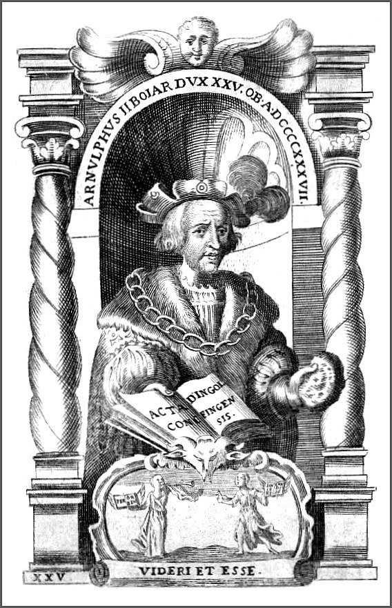 Arnulf II (c. 913—954) — Count Palatine of Bavaria since 938 (member of the Luitpolding dynasty), second son of Duke Arnulf I of Bavaria (?—937) and his wife Judith of Friaul (after 888—?)